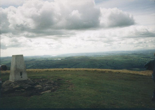 The Calf The highest point of the Howgill Fells, this is exactly on the border of the former West Riding and is now on the border of the Yorkshire Dales National Park.